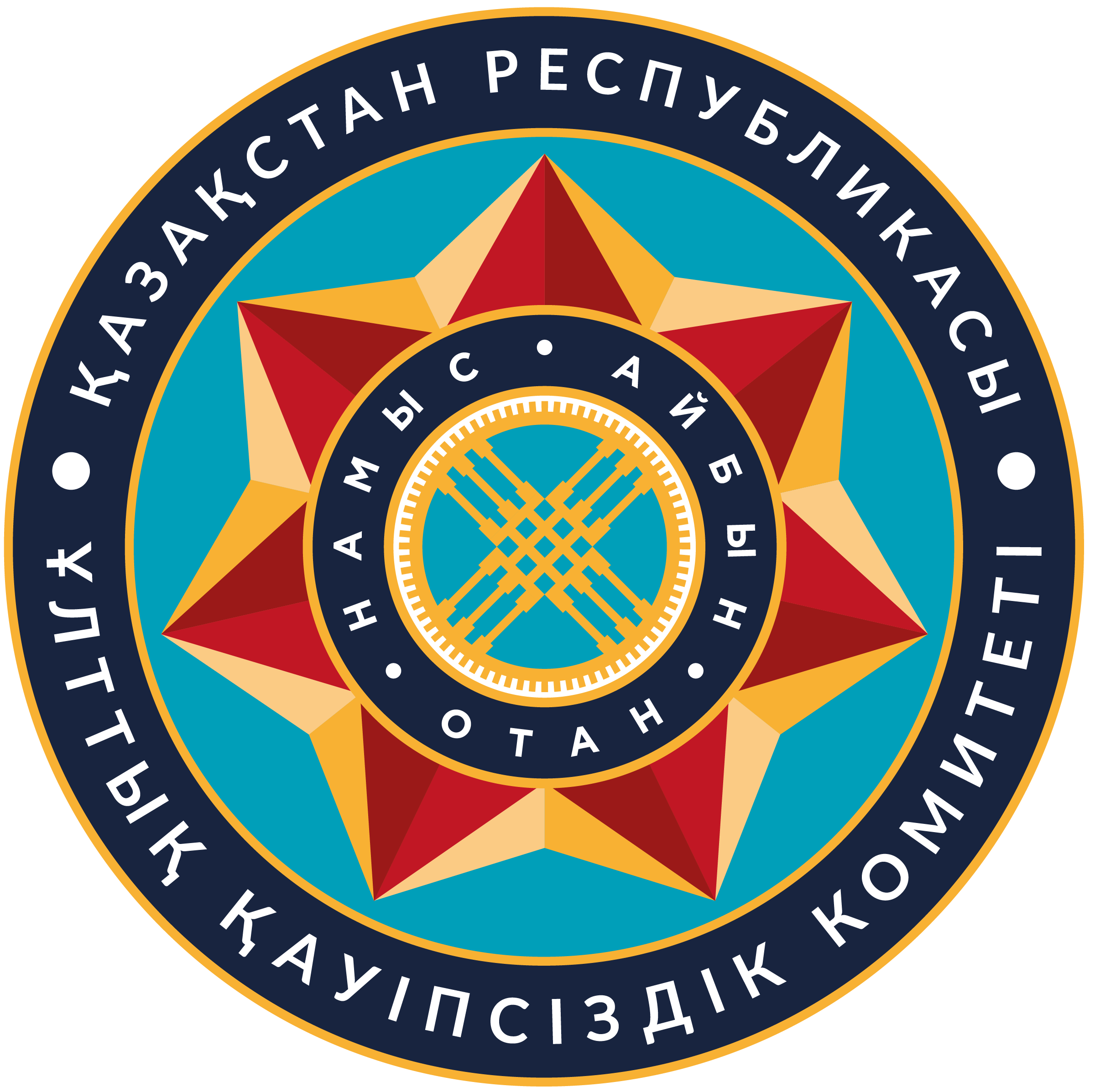 Seal of the KNB.